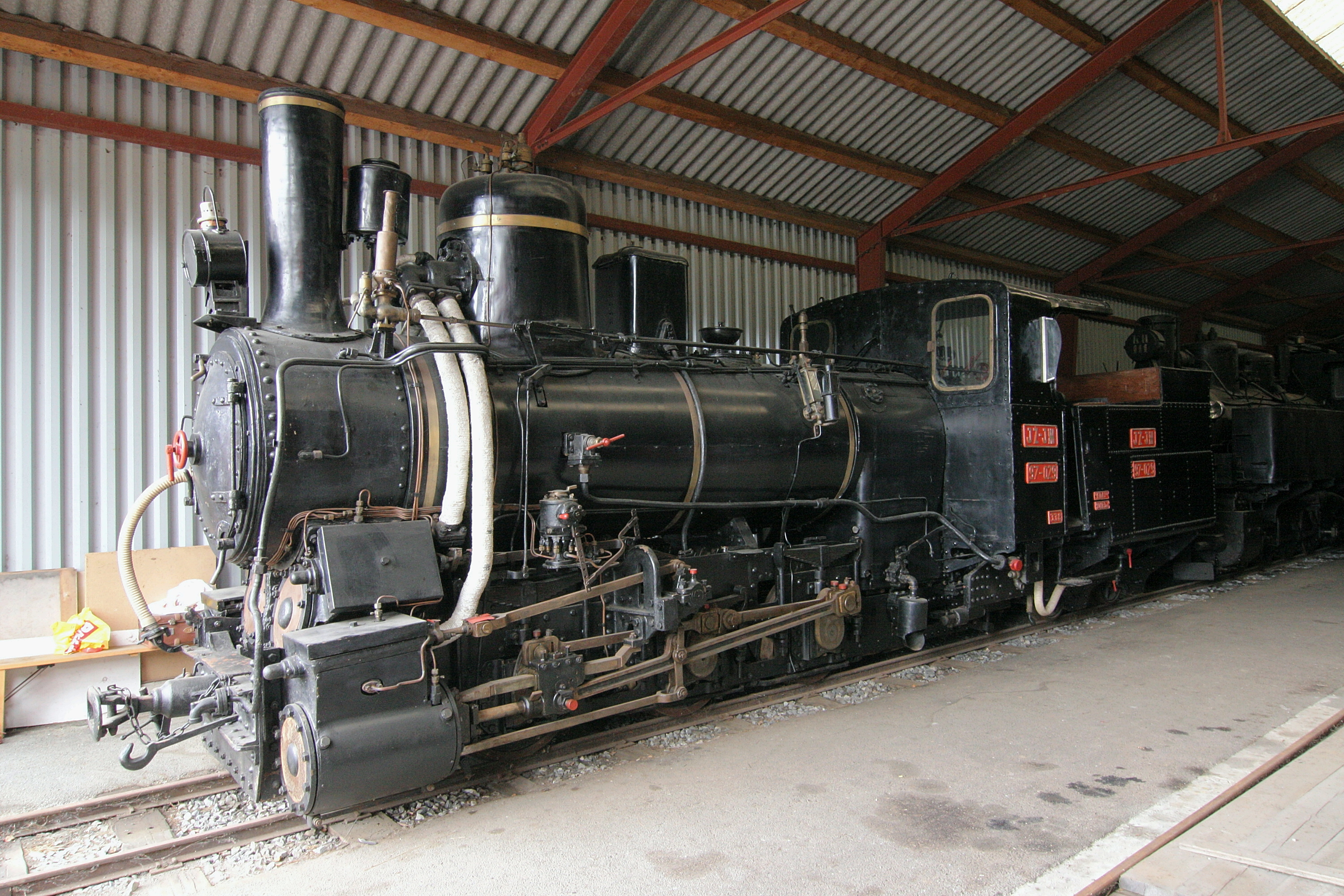 Rack engine JŽ 97-029 inside of the Club 760's Frojach-Katsch railway museum.